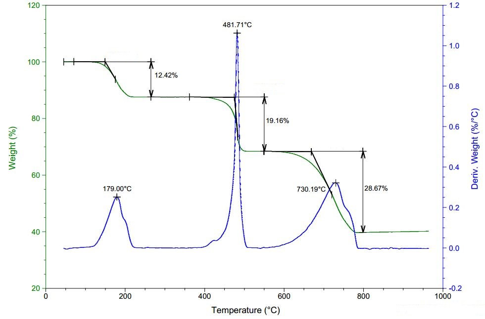 Example of Thermogravimetric Analysis on Calcium Oxalate Anhydrous